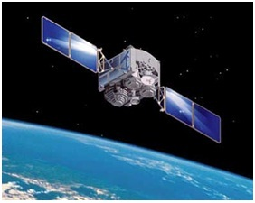 An artist's depiction of a Defense Satellite Communications System satellite on orbit is shown. The 3rd Space Operations Squadron will celebrate the 20th anniversary of DSCS B-10's launch on Nov. 28.